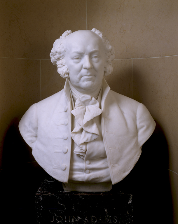 Senate Vice Presidential Bust Collection Marble, 1890 Overall (bust) measurement Height: 31.25 inches (79.4 cm) Width: 28 inches (71.1 cm) Depth: 18 inches (45.7 cm) Unsigned Cat. no. 22.00001.000